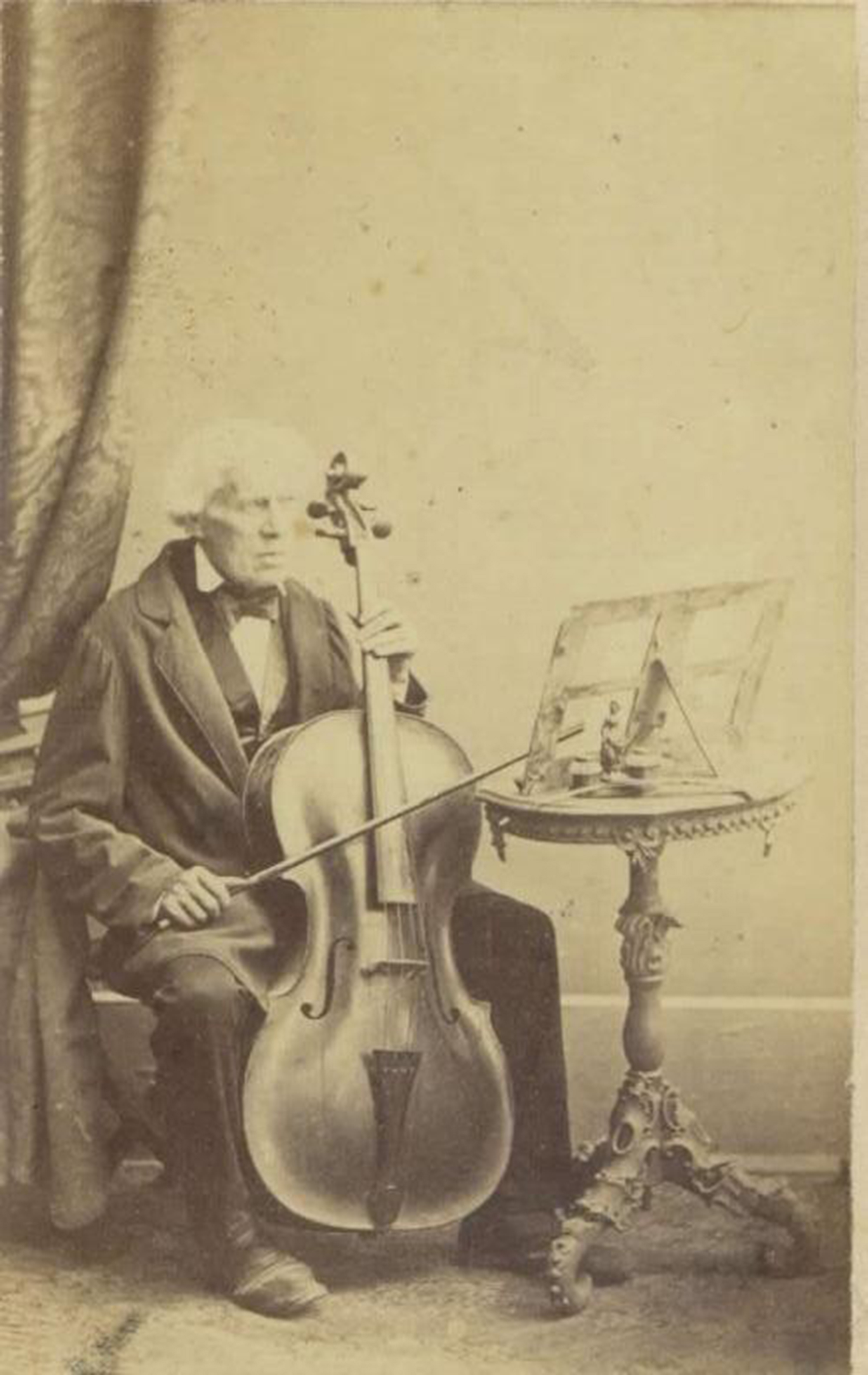 Gašpar Mašek (1794-1873), Slovene composer and conductor.